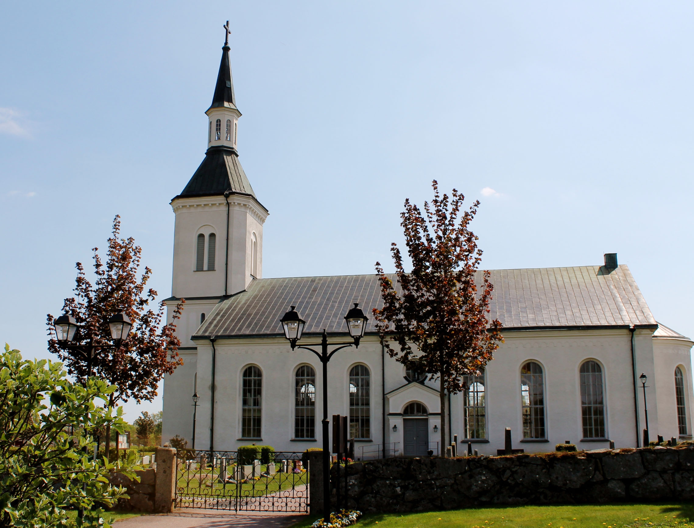 Vederslövs new church.The church which was built in 1878-79 marked by the neo-classical style but with clear historicerande stylistic features of neo-Gothic and neo-romanticism, designed by Edvard von Rothstein. The church was consecrated October 10, 1879 by Bishop Johan Andersson.